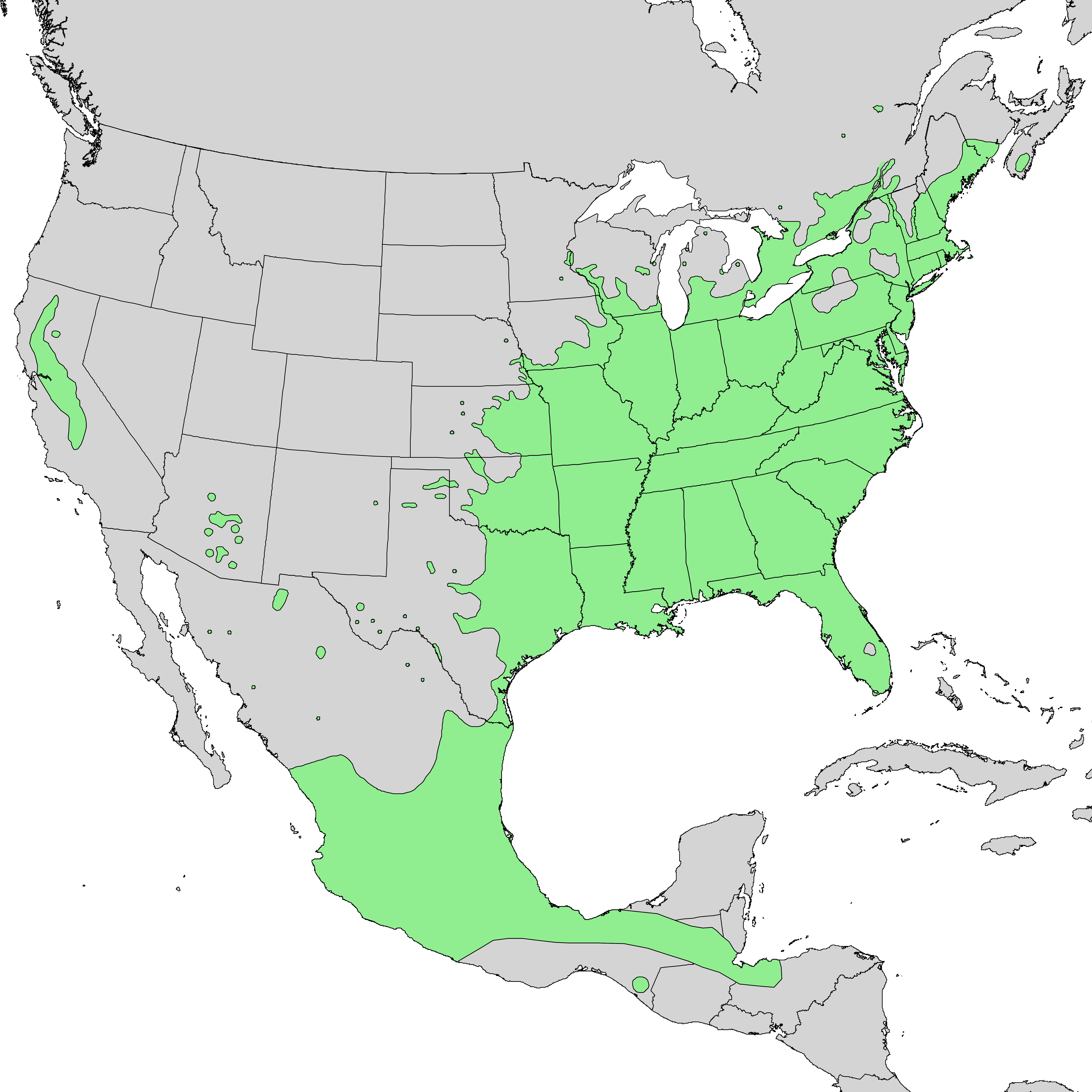 Natural distribution map for Cephalanthus occidentalis